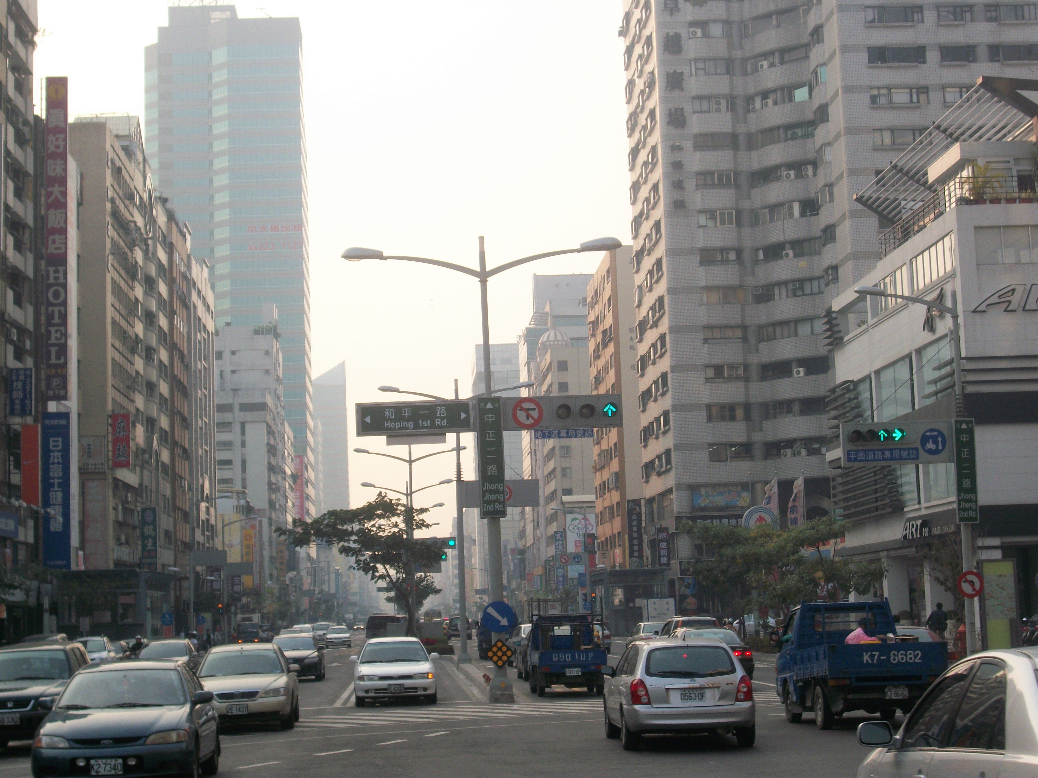 Looking westward alongside the Jhungjheng 2nd Road in Kaohsiung City,Taiwan.